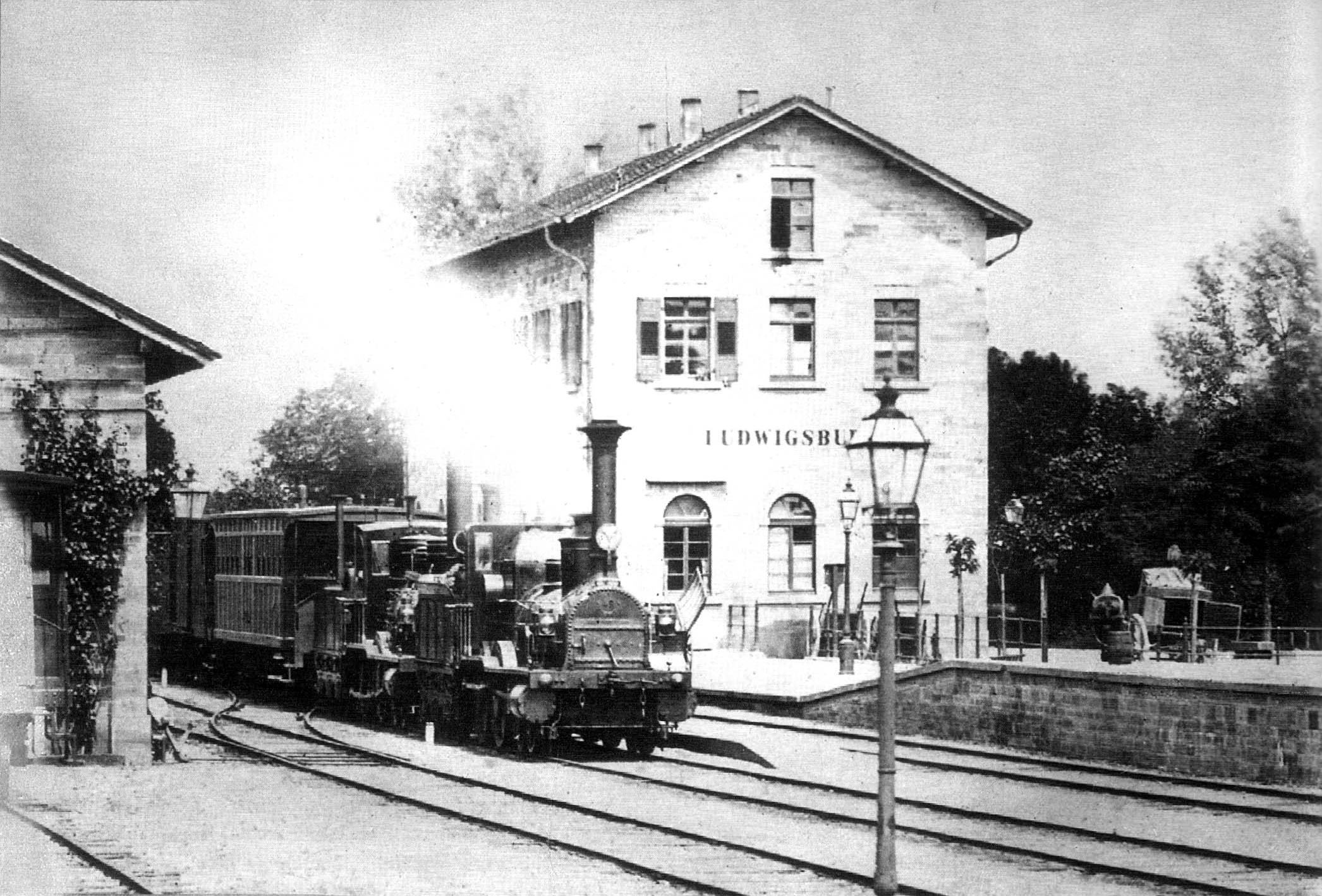 Two steam locomotives Württemberg III with train in Ludwigsburg.